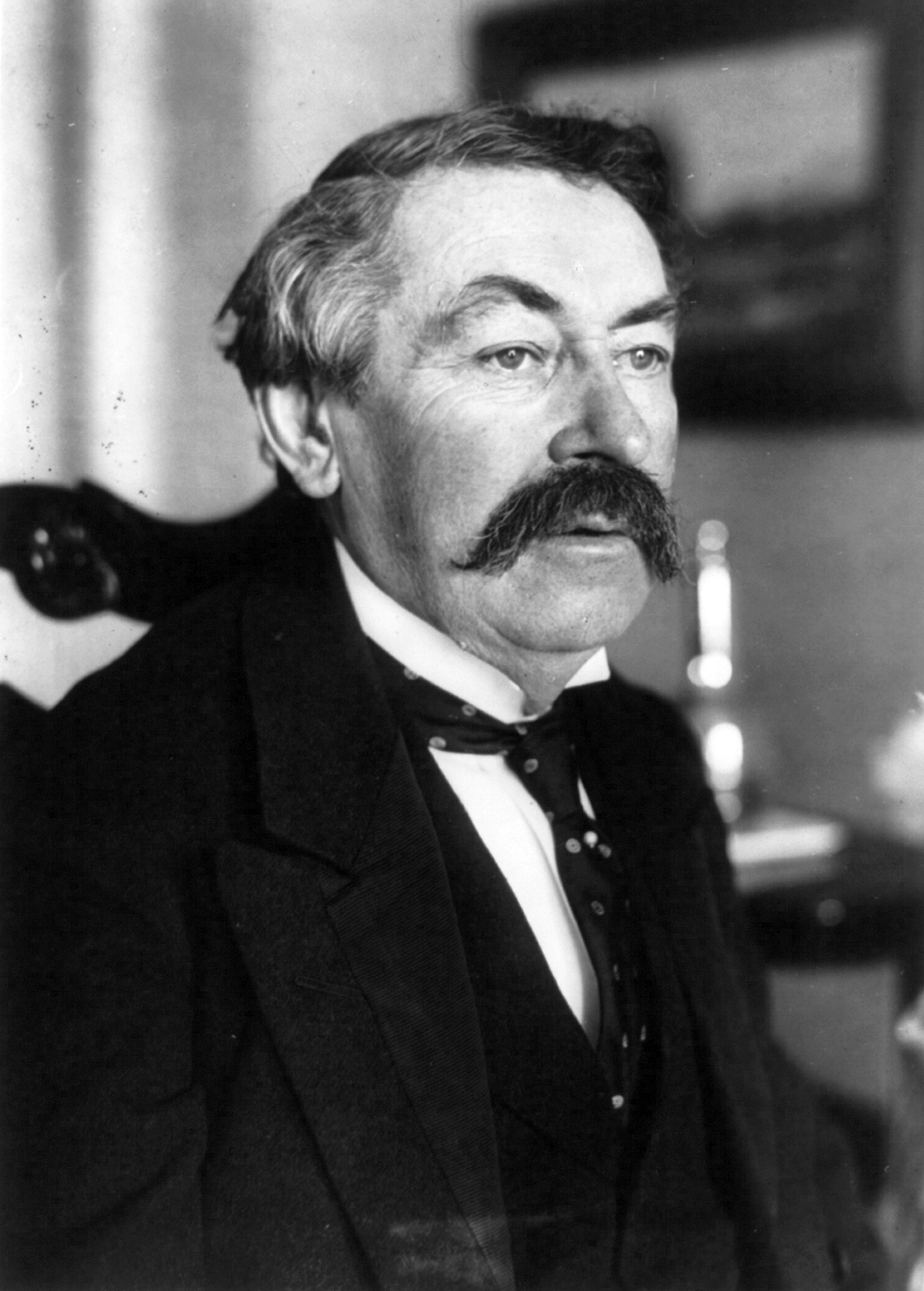 Aristide Briand, Prime Minister of France